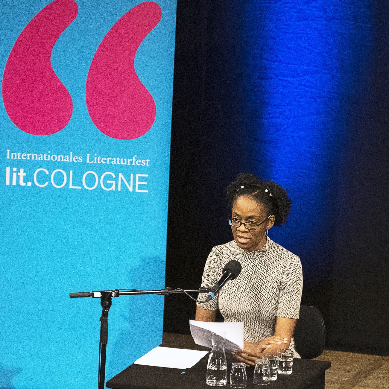 Sharon Dodua Otoo, Writer